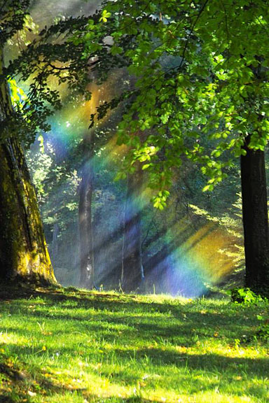 Photo of crepuscular rays in sprinkler spray at a park in France.